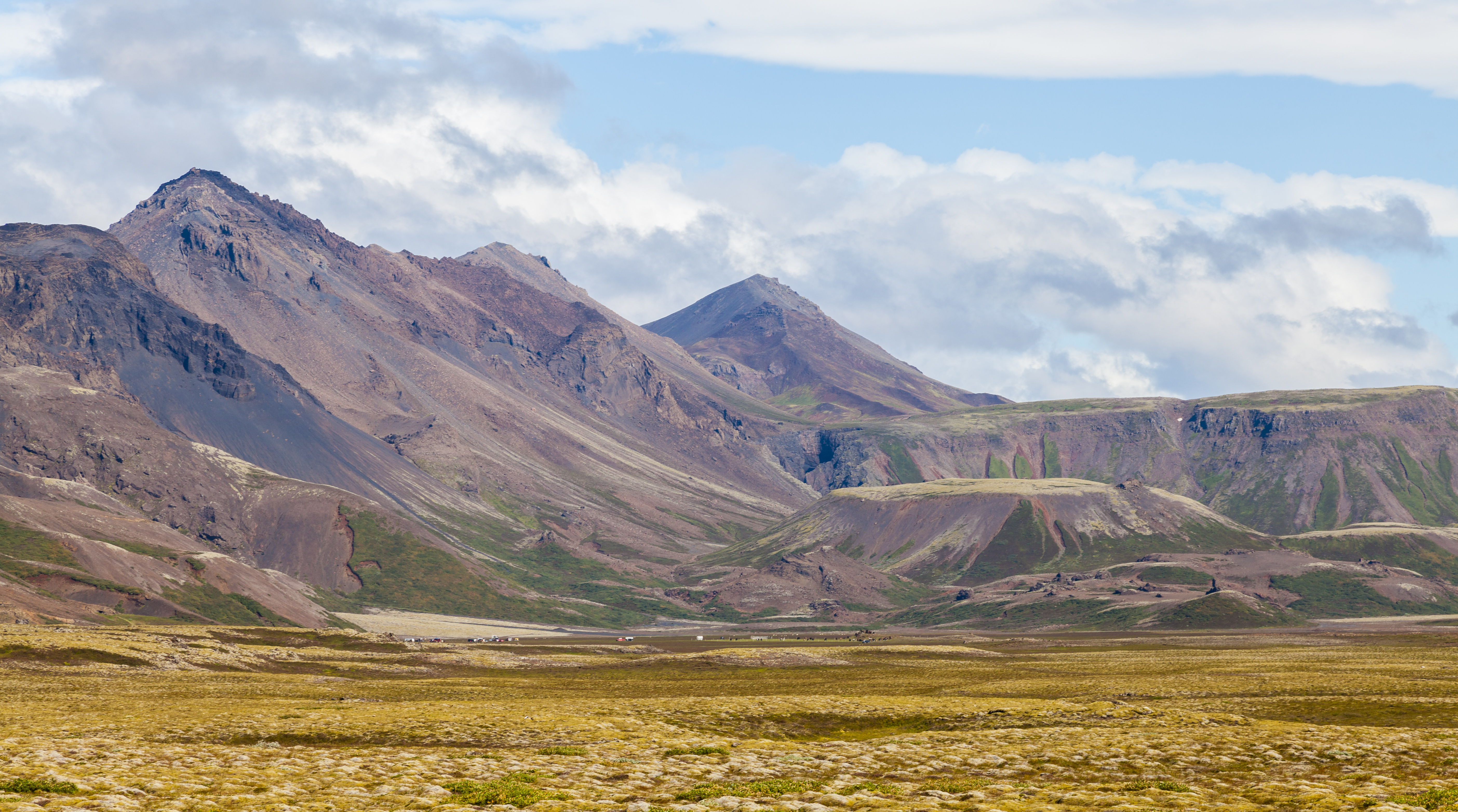 Landscape near Laugarvatn, Suðurland, Iceland